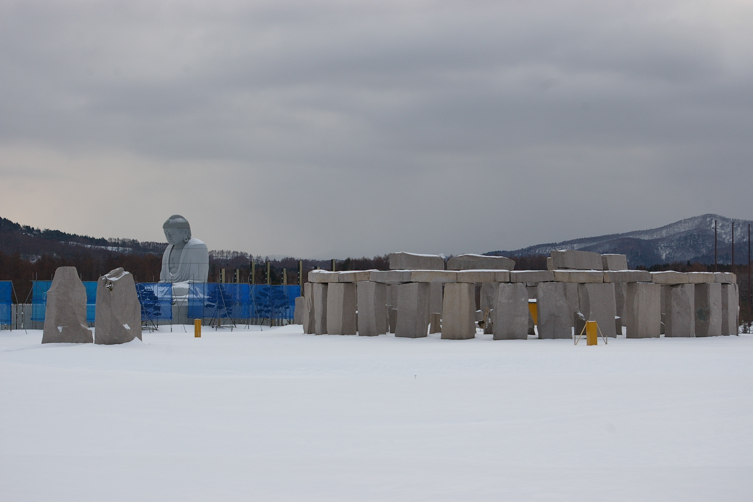 The stone circle and the stone statue of the Buddha, Makomanai takino cemetery in Sapporo city.